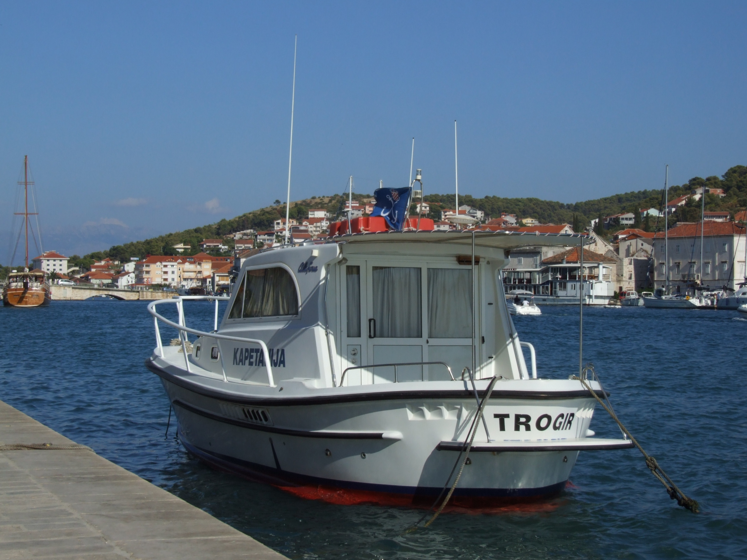 Harbourmaster's ship in Trogir, Croatia